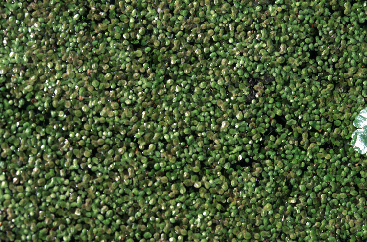 Lemna minuta syn. Lemna minuscula at Humboldt Bay National Wildlife Refuge Complex, California, USA